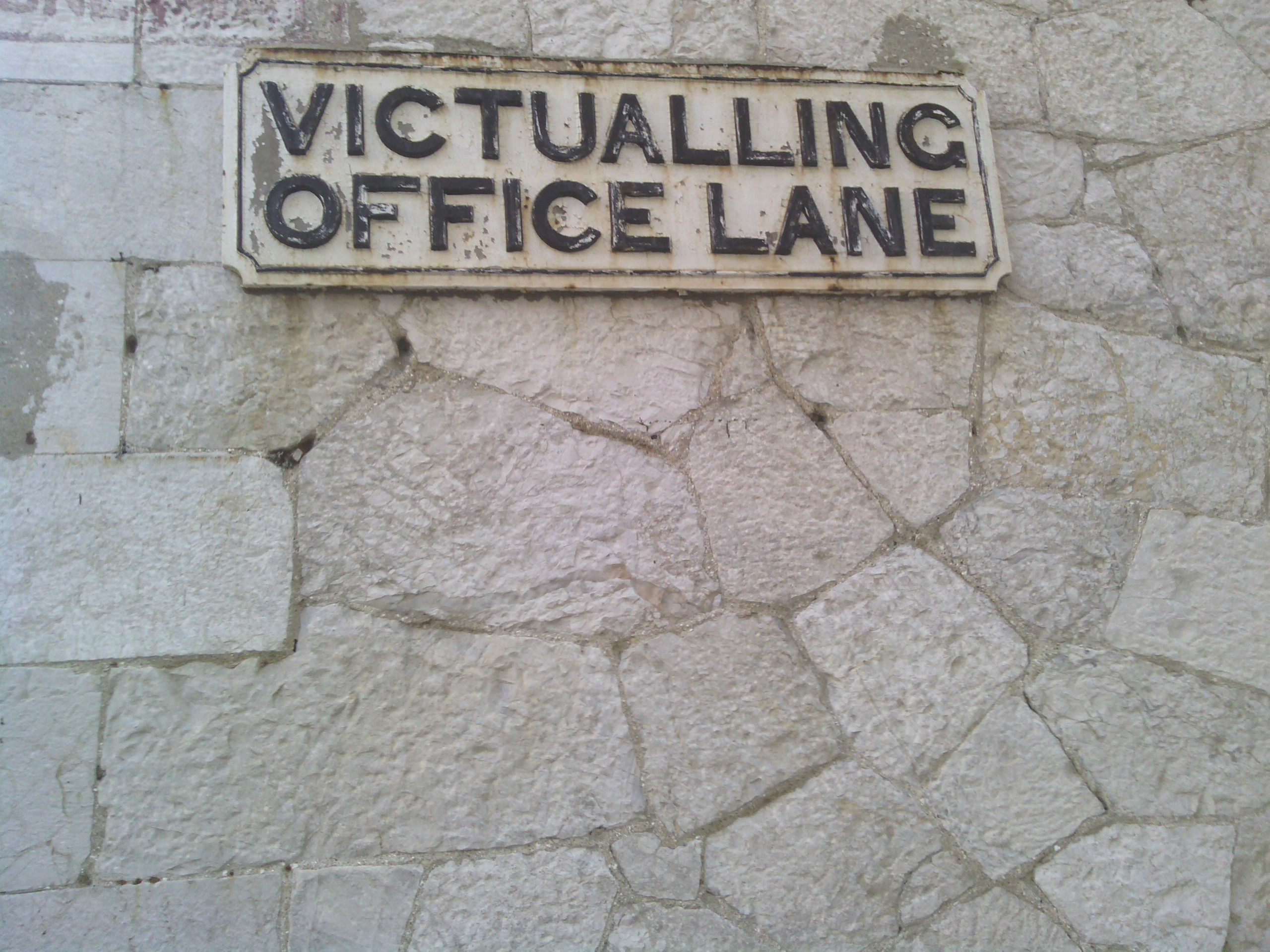 Victualling Office Lane Gibraltar